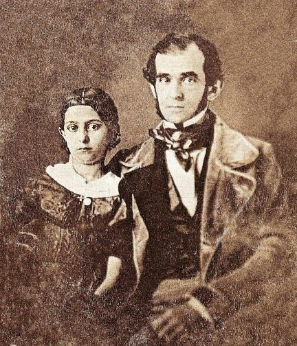 Florencio Varela with his daughter María in Montevideo, c.1847